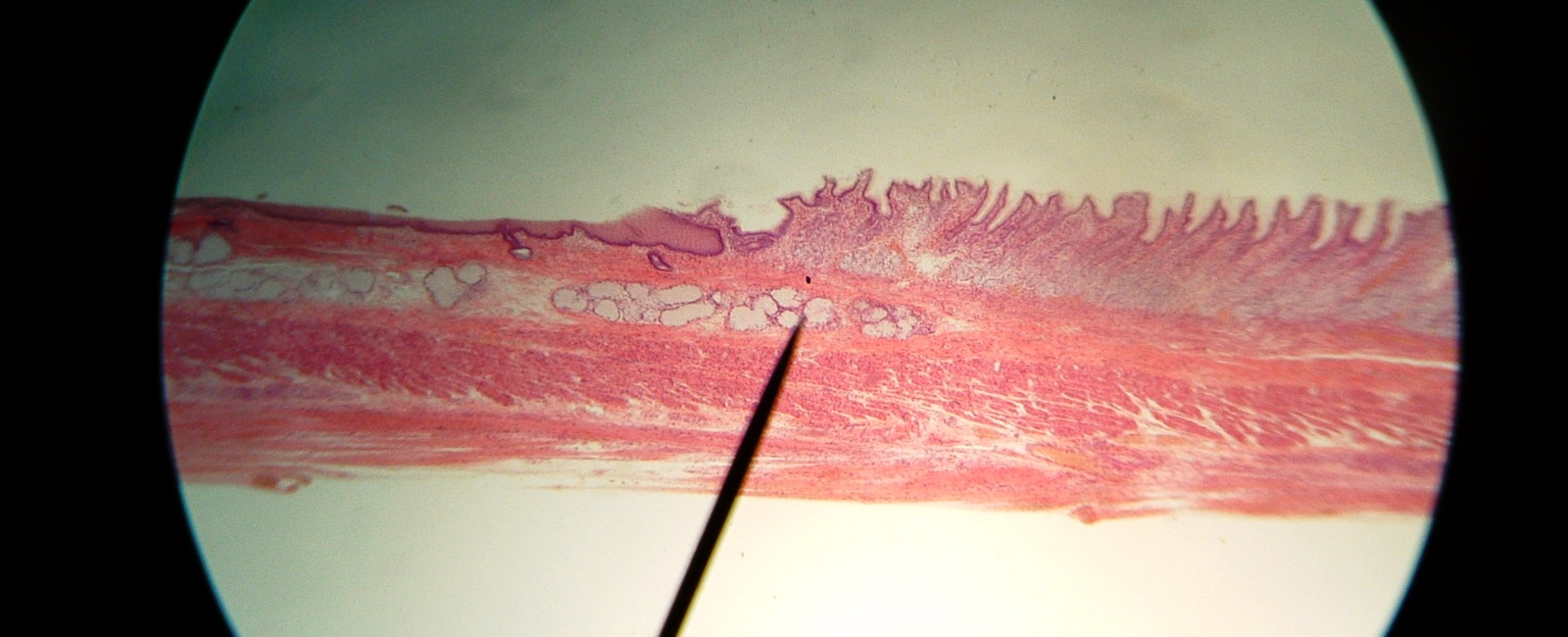 esophagus stomach